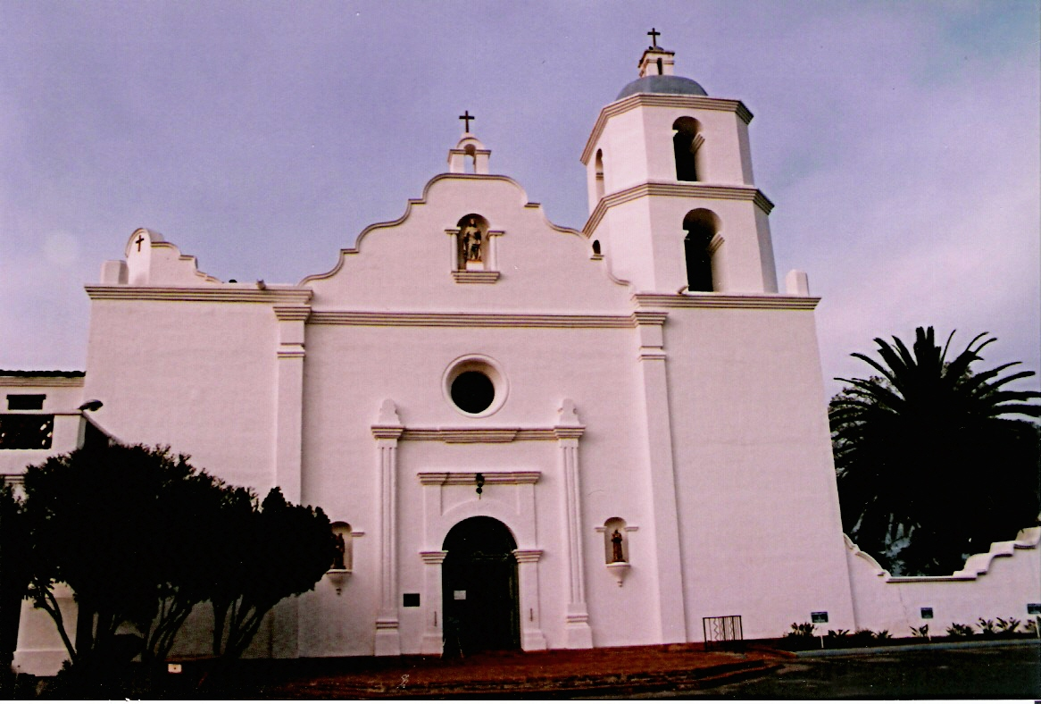 Mission San Luis Rey de Francia in Oceanside, California. Photograph by Robert A. Estremo, copyright 1986.